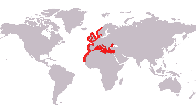 Conger conger distribution map